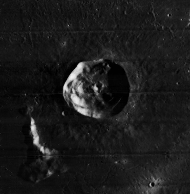 Delisle (center) and Mons Delisle (lower left), on the moon.